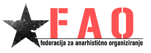 Logo of Federation for anarchist organizing (FAO)